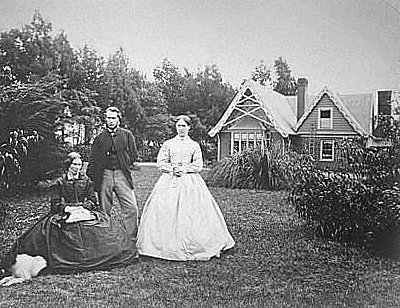 William Travers photographed in the garden of Englefield Lodge with his wife and daughter.